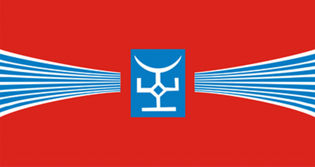 Flag of the Talas province, in Kyrgyzstan